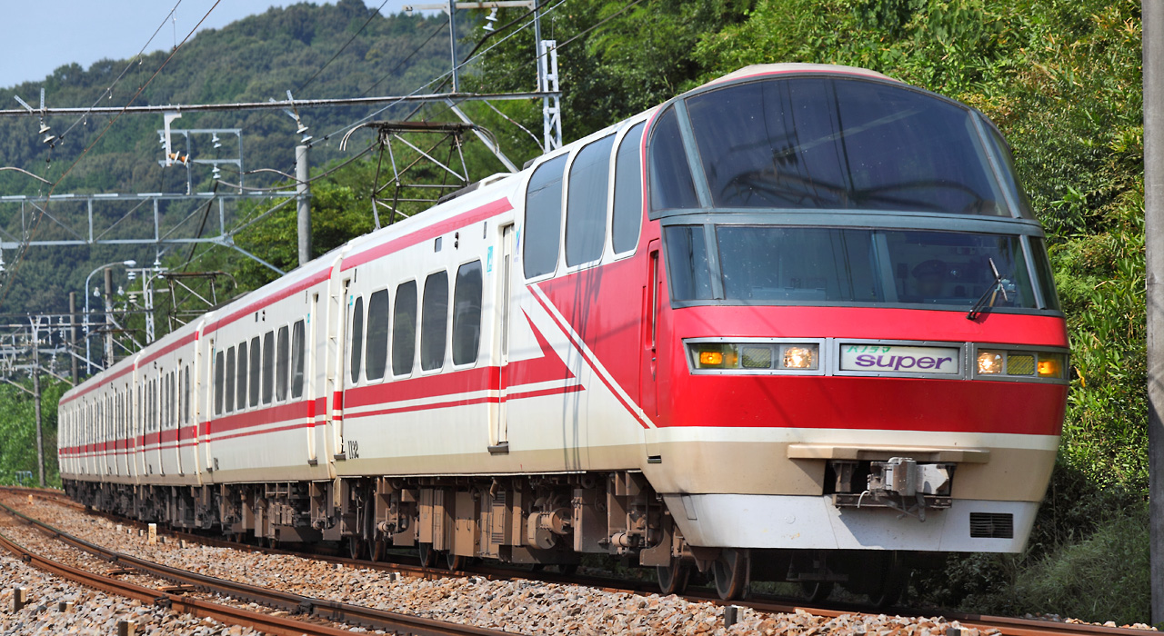 Meitetsu 1030 series EMU ( 1132F)